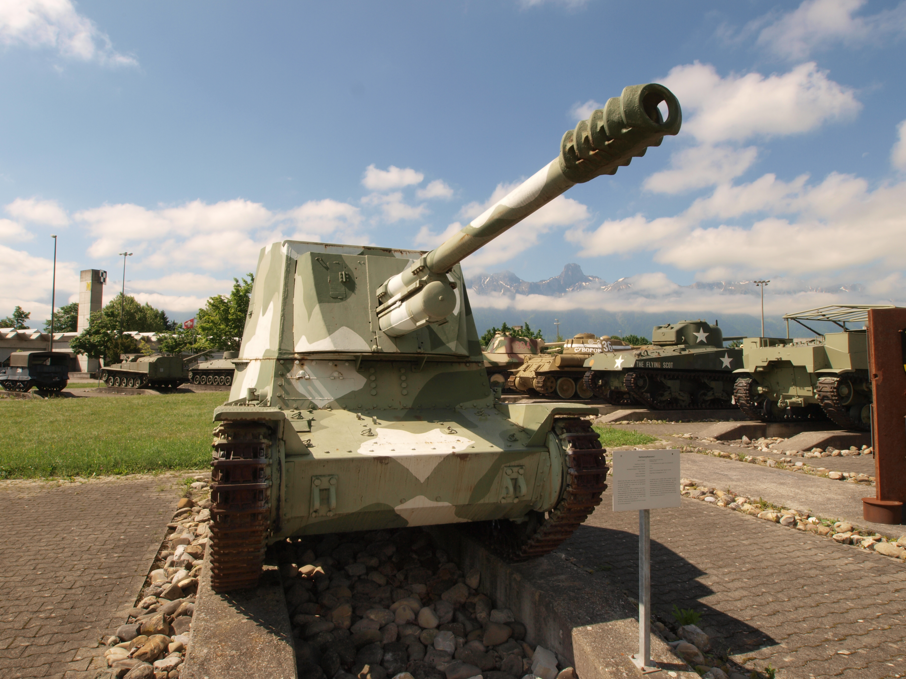 Photographed at the army base Thun, Switzerland.